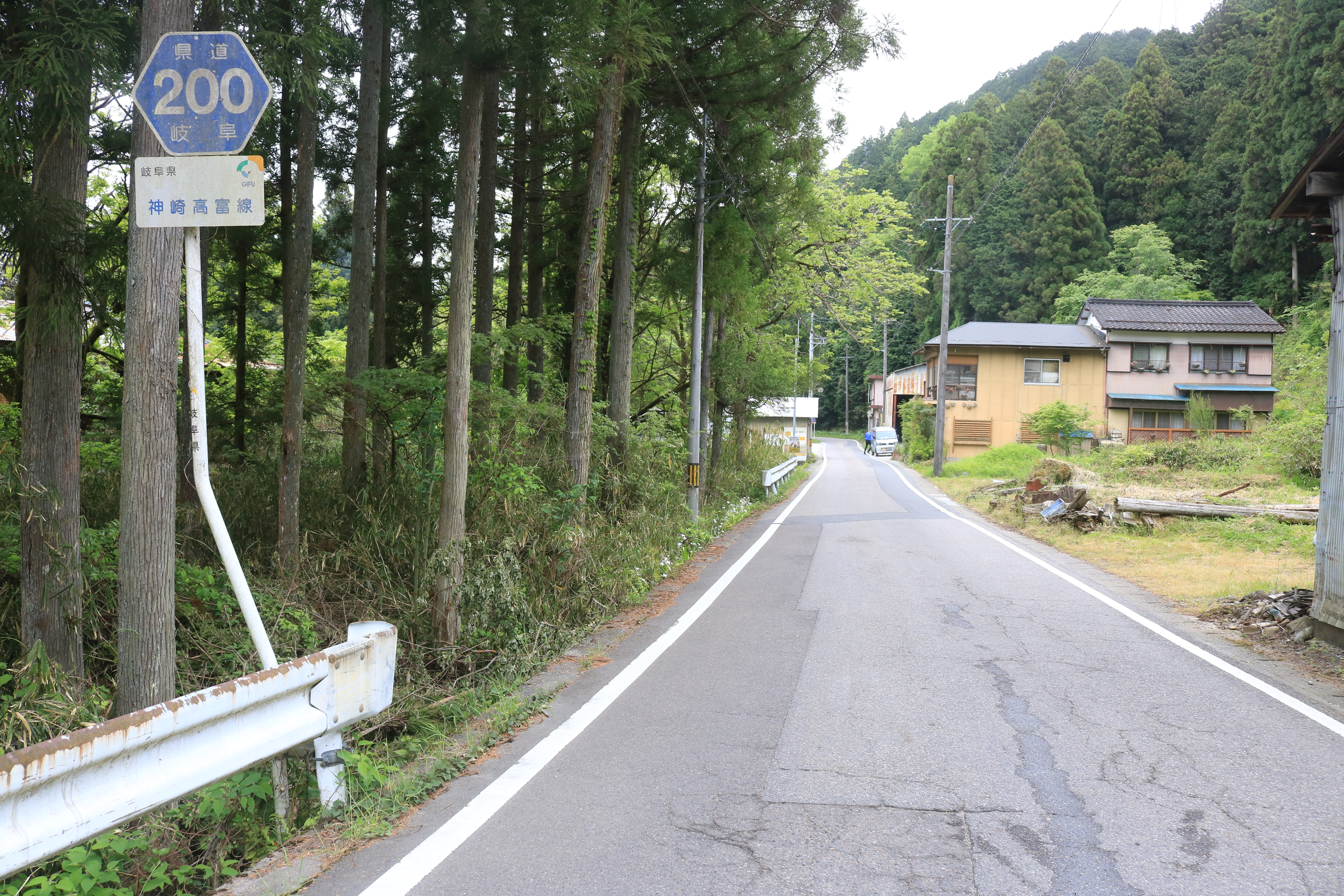 Gifu Prefectural Road Route 200 and Gifu Prefectural Road Route 91 in Taniai, Yamagata, Gifu prefecture, Japan.